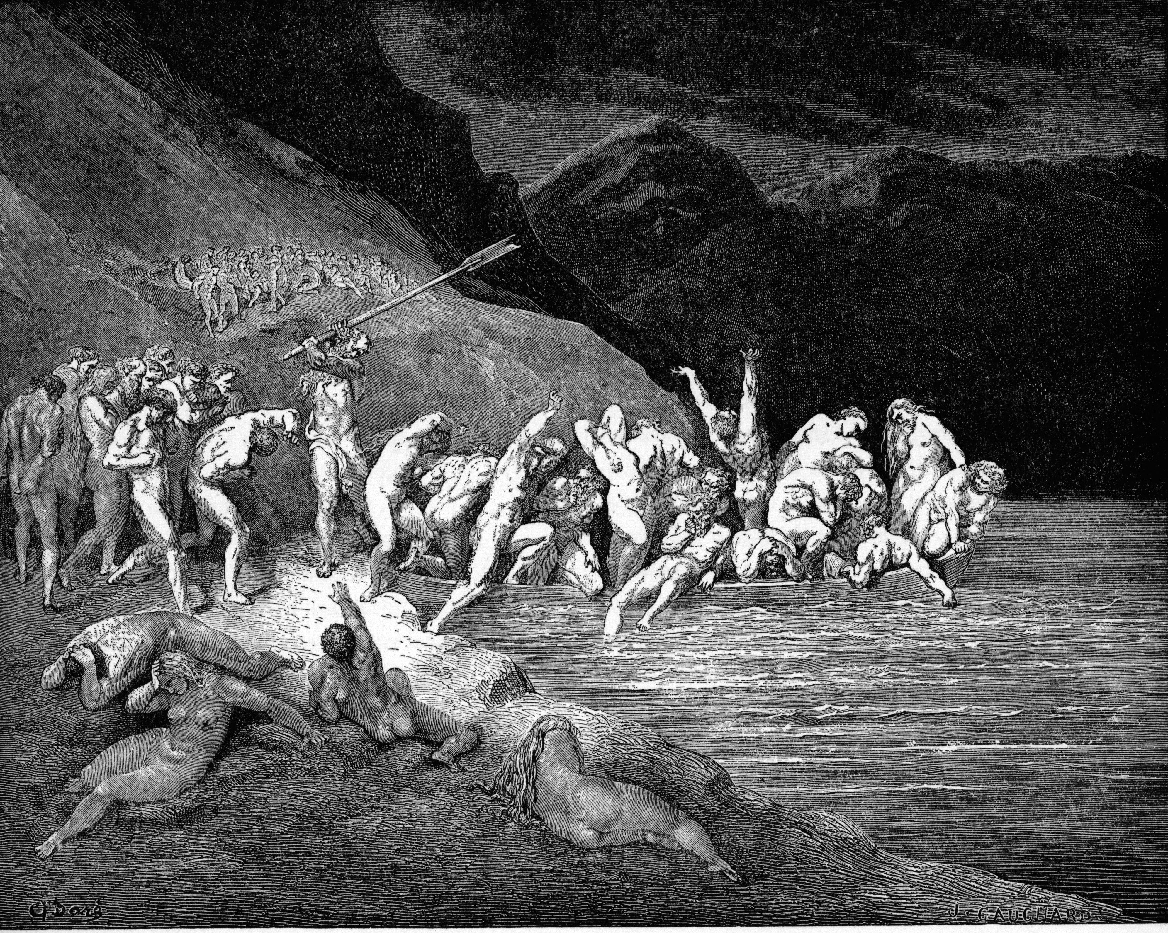 High resolution scan of engraving by Gustave Doré illustrating Canto III of Divine Comedy, Inferno, by Dante Alighieri. Caption: The Doomed Souls embarking to cross the Acheron